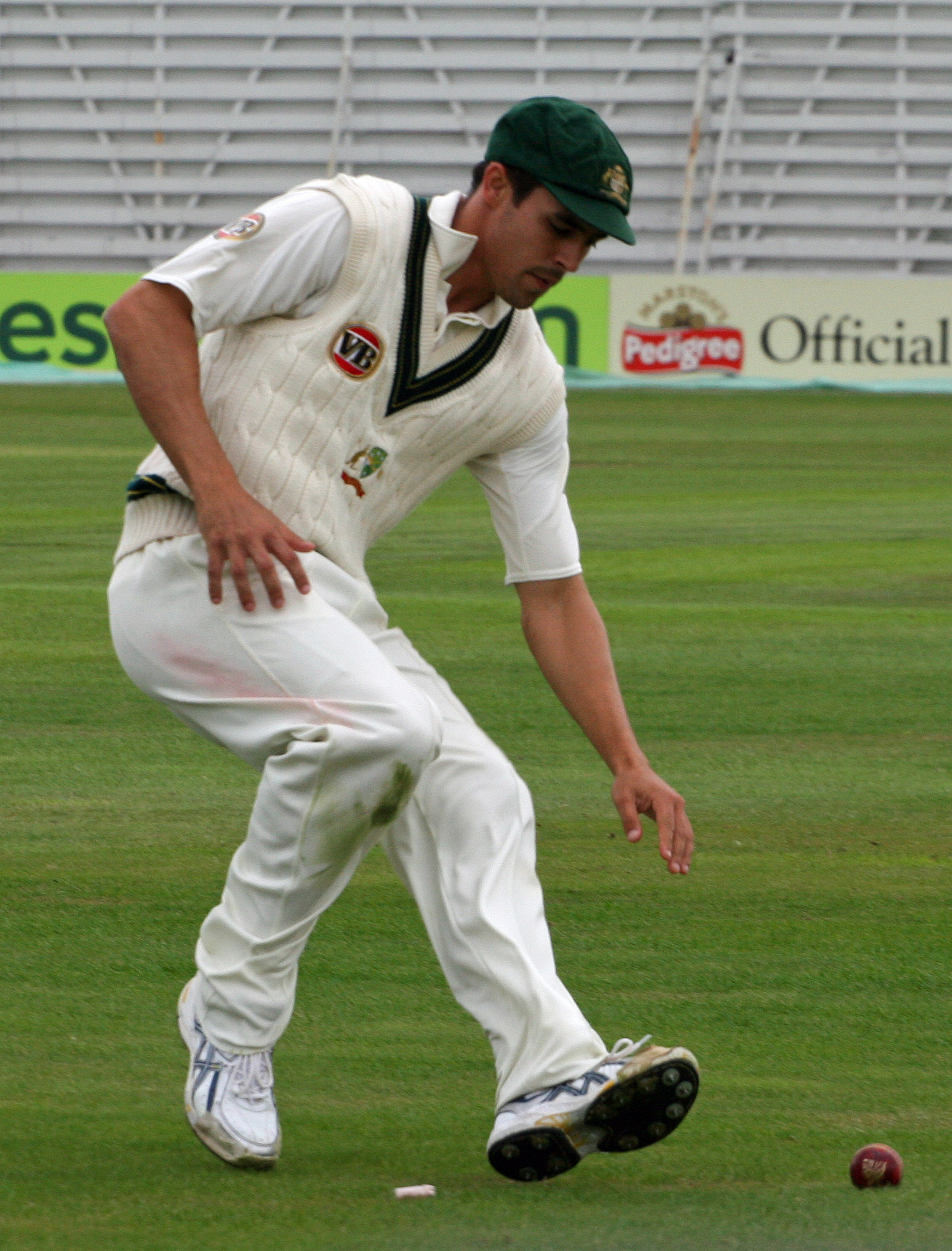 Australian cricketer Mitchell Johnson fielding during a tour match against Northamptonshire during the 2009 Ashes.